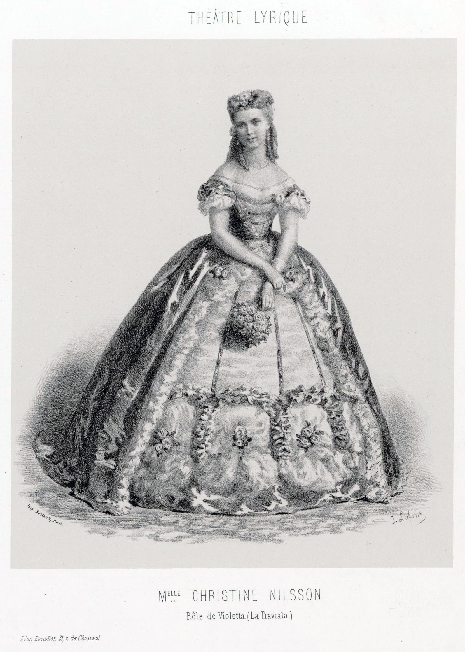 Christine Nilsson, Swedish soprano, as Violetta in Verdi's La traviata, a role in which she made her operatic debut on 27 October 1864 at the Théâtre Lyrique in Paris